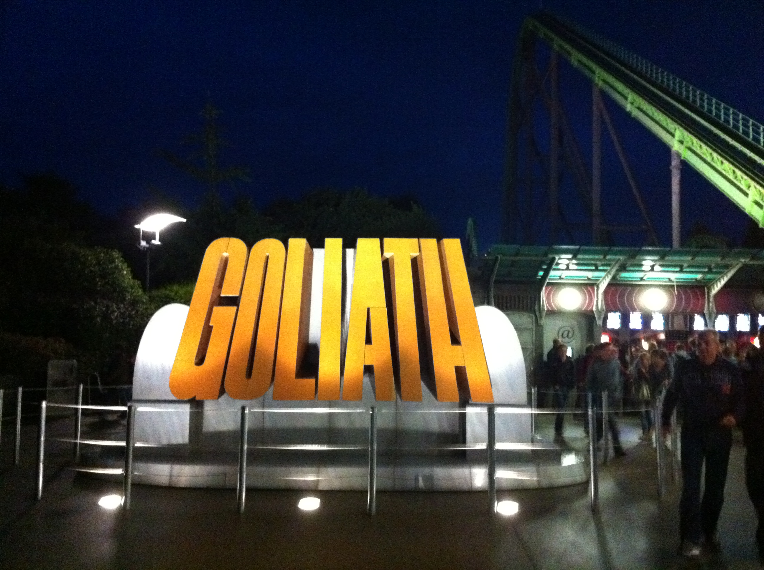 The rollercoaster Goliath at night, during the Summer Nights at Walibi Holland.